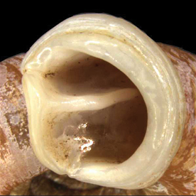 Photo of an oblique apertural view of a shell of Halongella schlumbergeri (Morlet, 1886). Locality: MAA3 Quảng Ninh Province, Hạ Long Bay Area, unnamed island in Cống Đỏ area, 20°52.47'N, 107°11.72'E, coll. Maassen, W.J.M., 03.10.2003., PGB/1, WM/3).